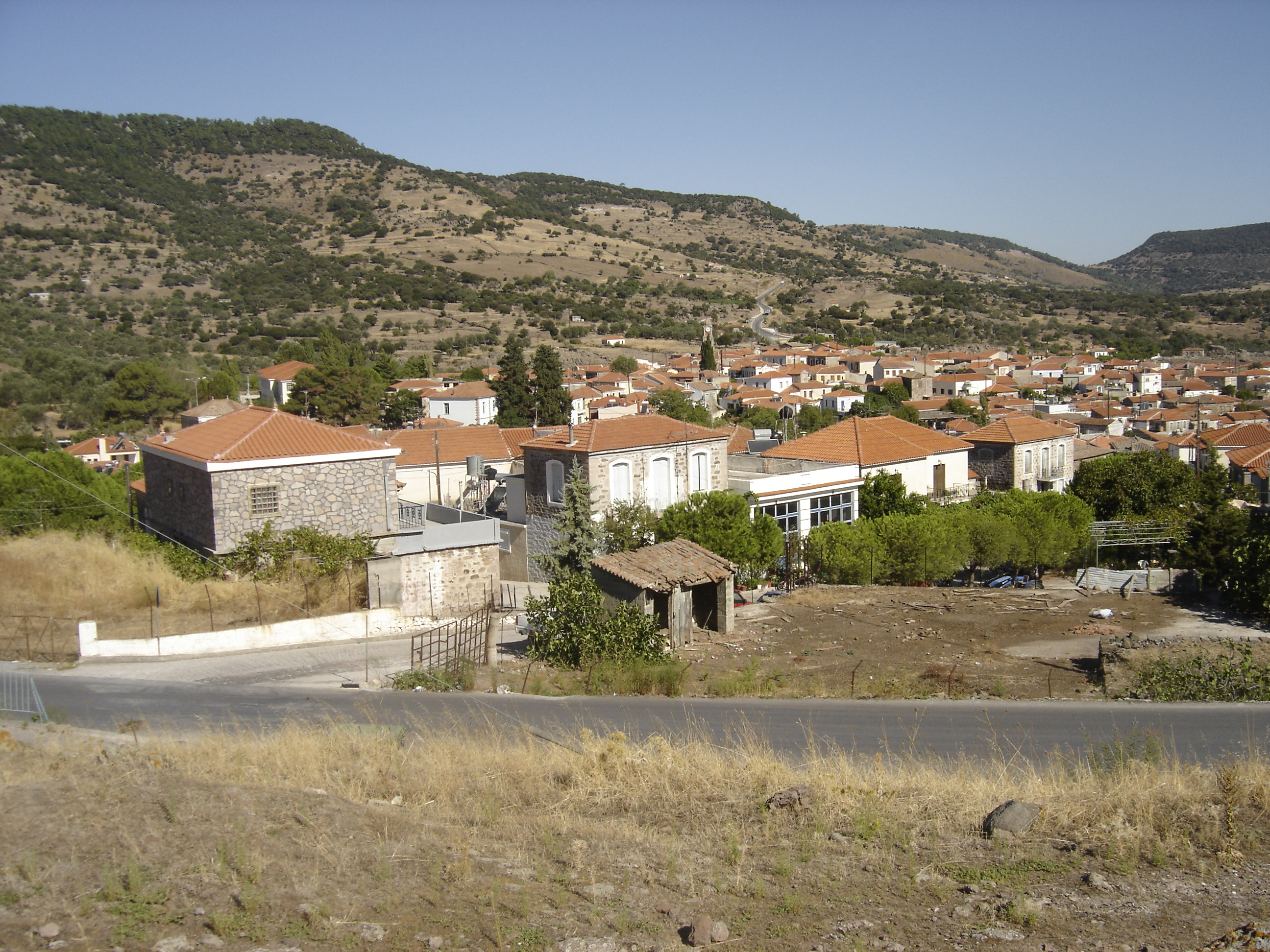 Mandamados village in Lesvos island